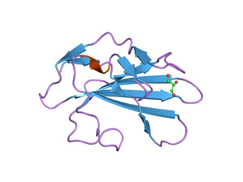 Cartoon representation of the molecular structure of protein registered with 1m9z code.